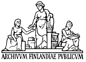 The insignia of the Finnish National Archives Service